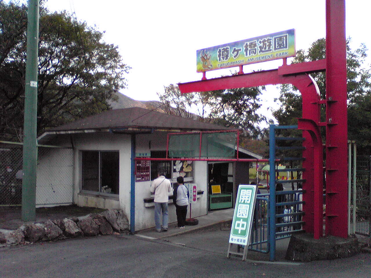 Tarugahashi Amusement Park at Michinoeki Tainai in Tainai City, Niigata Prefecture, Japan